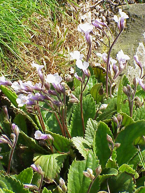 Species: Haberlea rhodopensis Family: Gesneriaceae Image No. 2